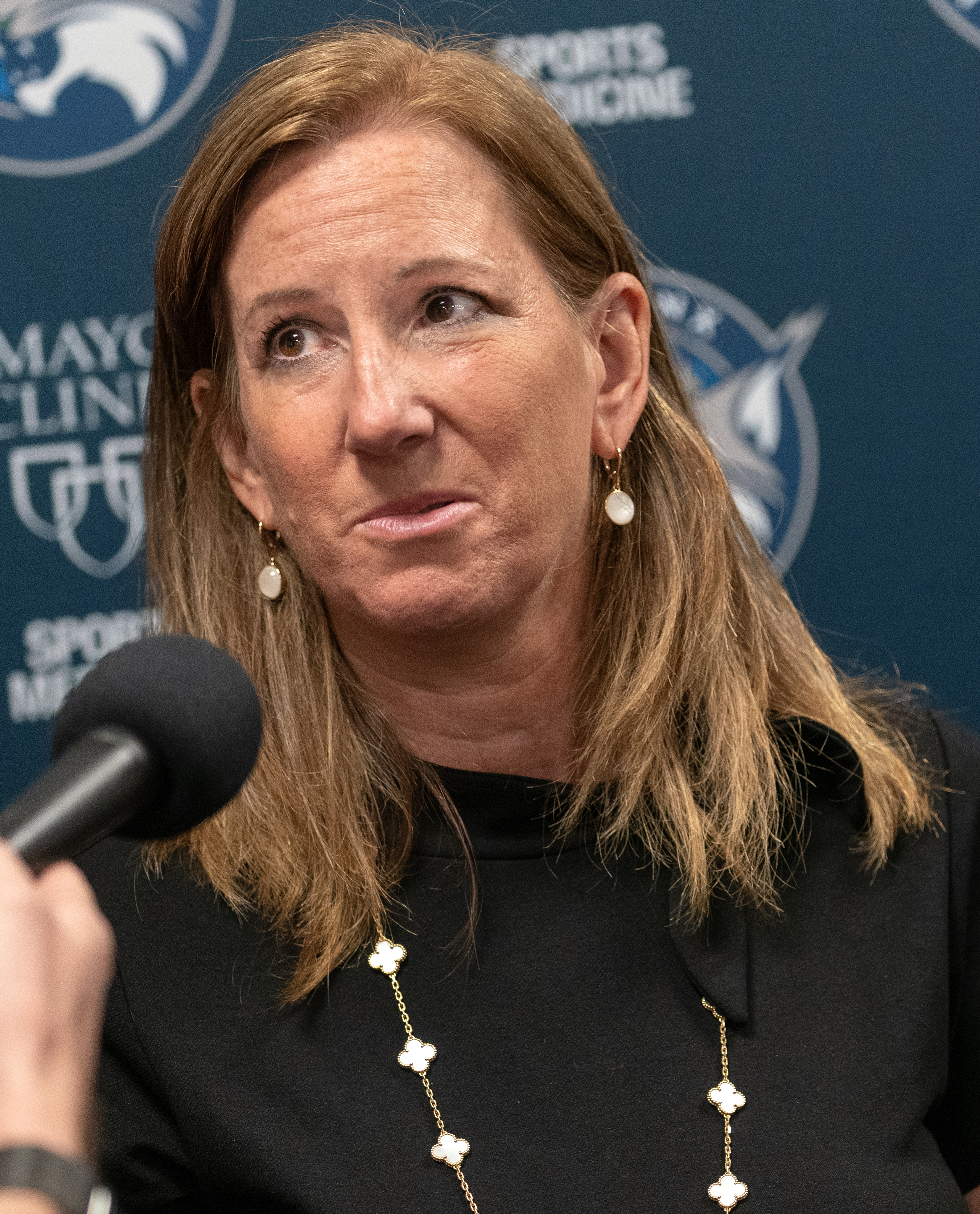 WNBA Commissioner Cathy Engelbert speaking to journalists at halftime in a Lynx vs Mystics game